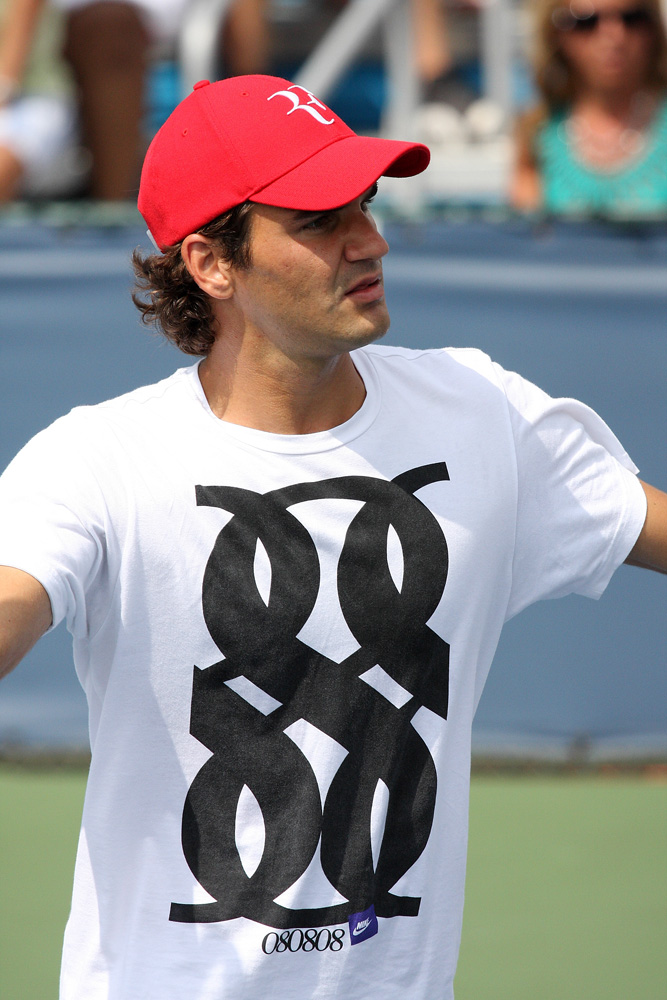 Roger Federer at the 2008 Western & Southern Financial Group Masters Mason, Ohio